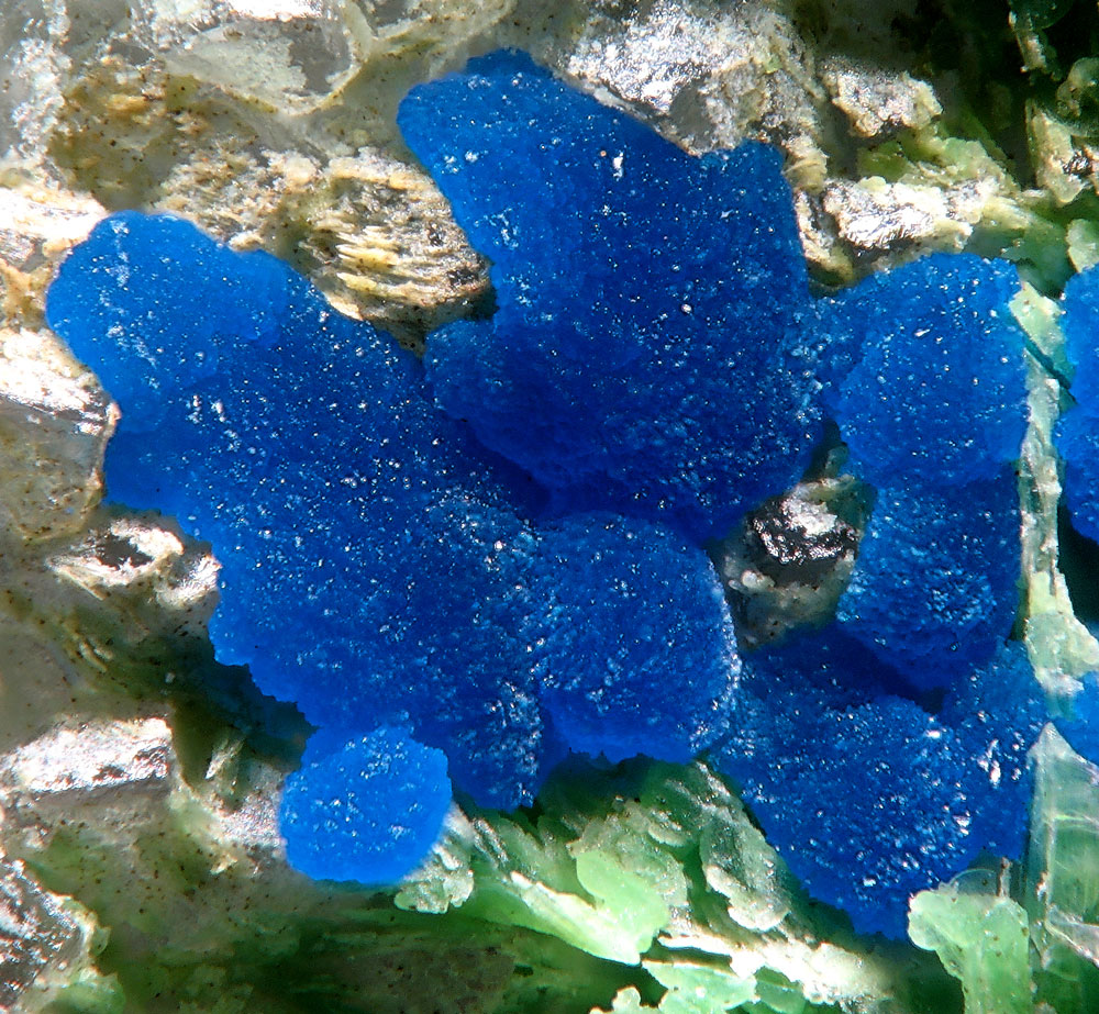 Arhbarite (Picture width: 4 mm) Locality: El Guanaco Mine, Guanaco (Huanaco), Santa Catalina, Antofagasta Province, Antofagasta Region, Chile